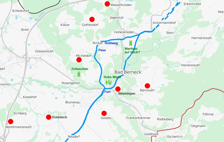 The historical situation of the Hohe Warte castle